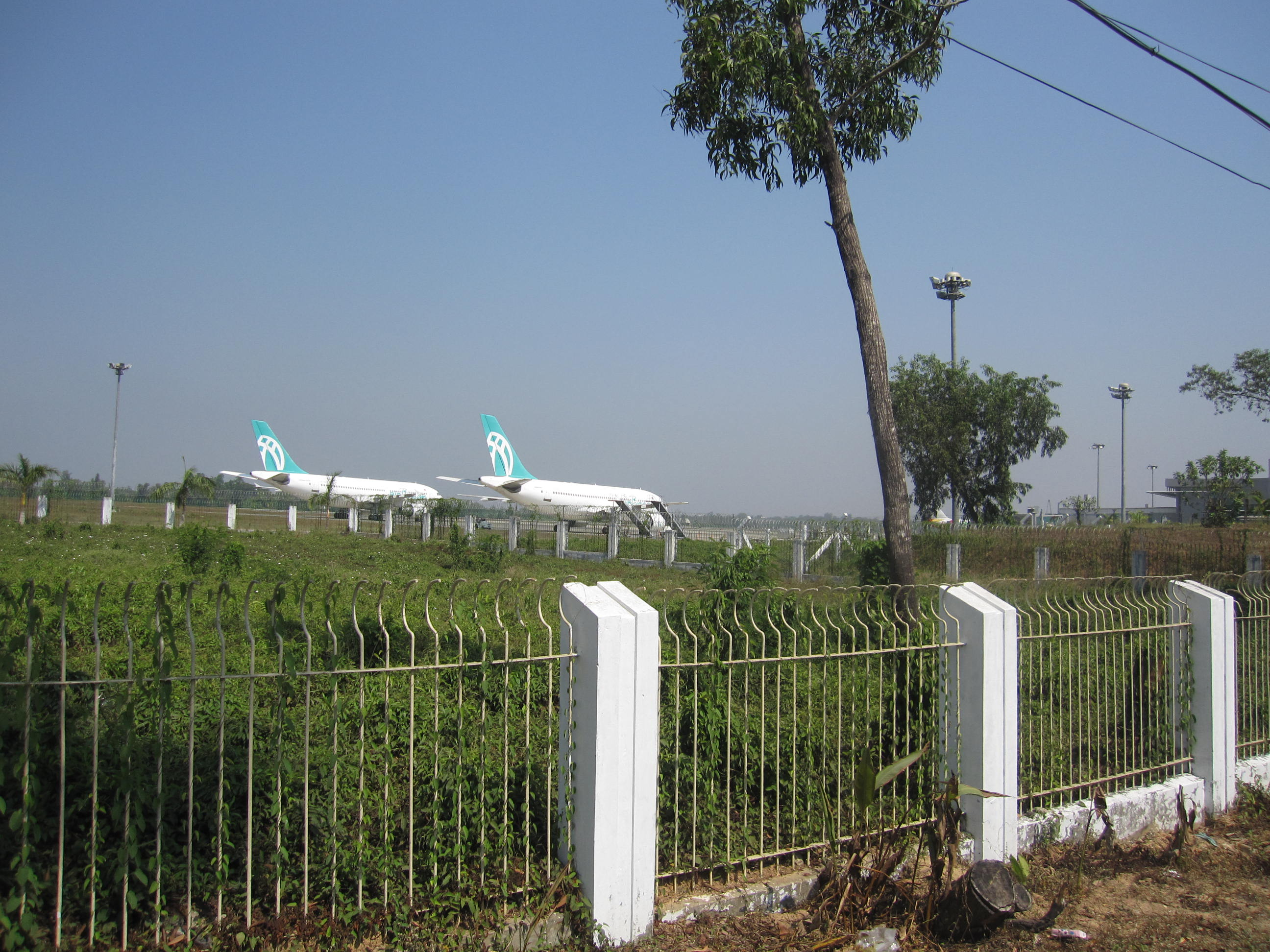 The "Twin Chinthe" of Air Bagan at Yangon International Airport